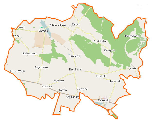 Map of Gmina Brodnica, Poland This map of Brodnica (gmina w województwie wielkopolskim) was created from OpenStreetMap project data, collected by the community. This map may be incomplete, and may contain errors. Don't rely solely on it for navigation.